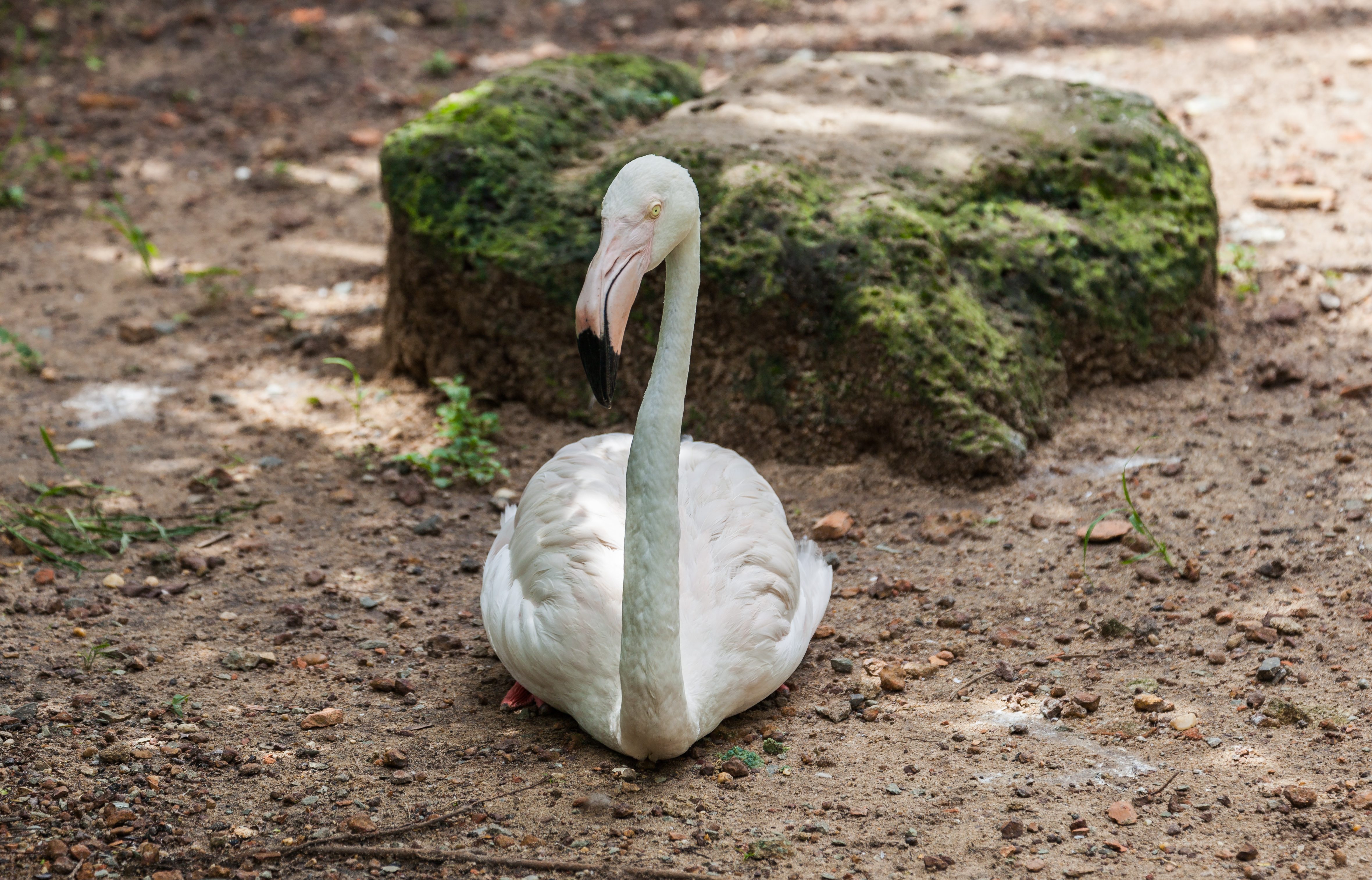 Chilean Flamingo (Phoenicopterus chilensis), Ho Chi Minh City Zoo, Vietnam